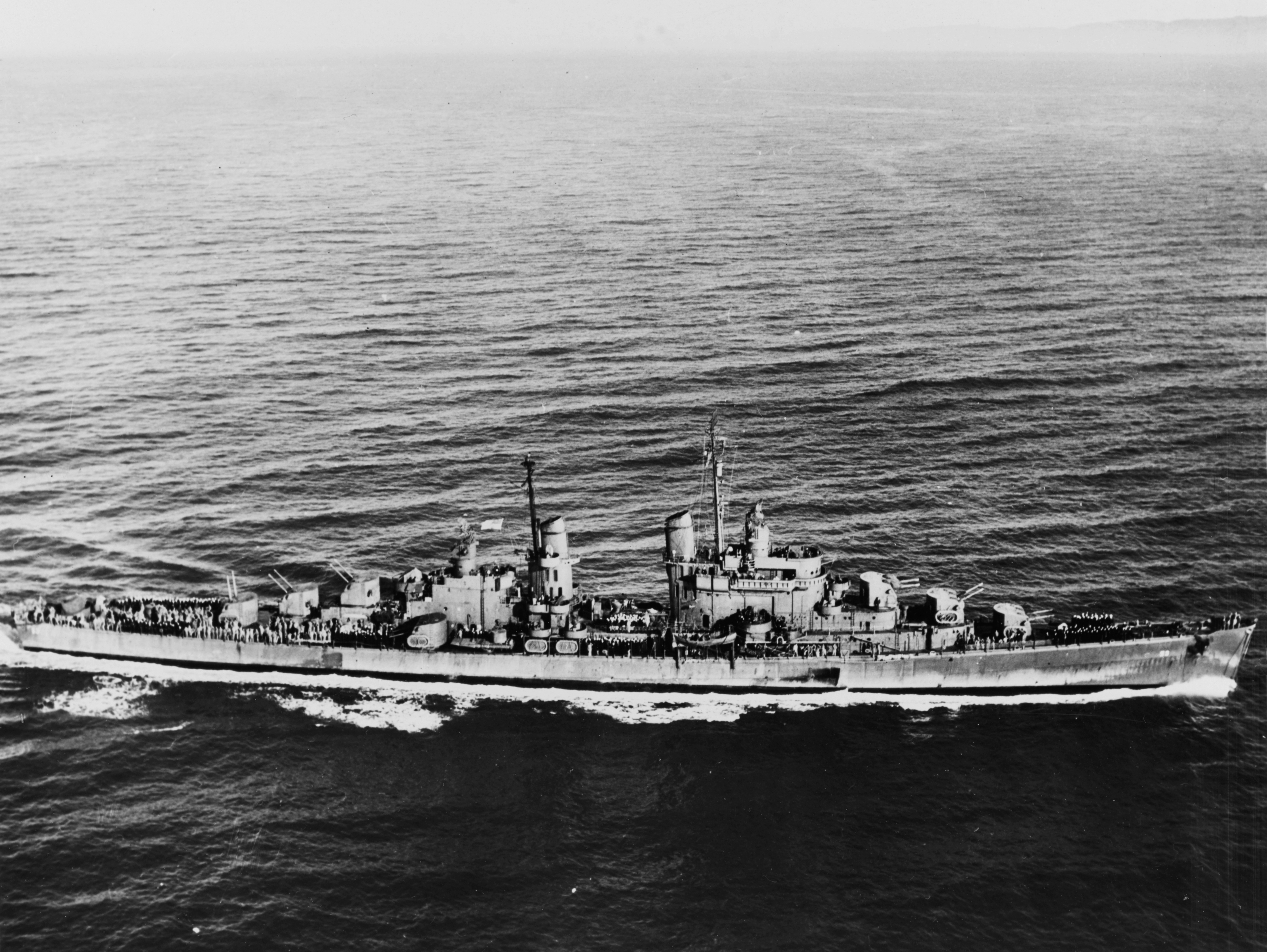 The U.S. Navy light cruiser USS San Diego (CL-53) underway on 8 March 1944. San Diego was on her way to the San Francisco Naval Shipyard for an overhaul.